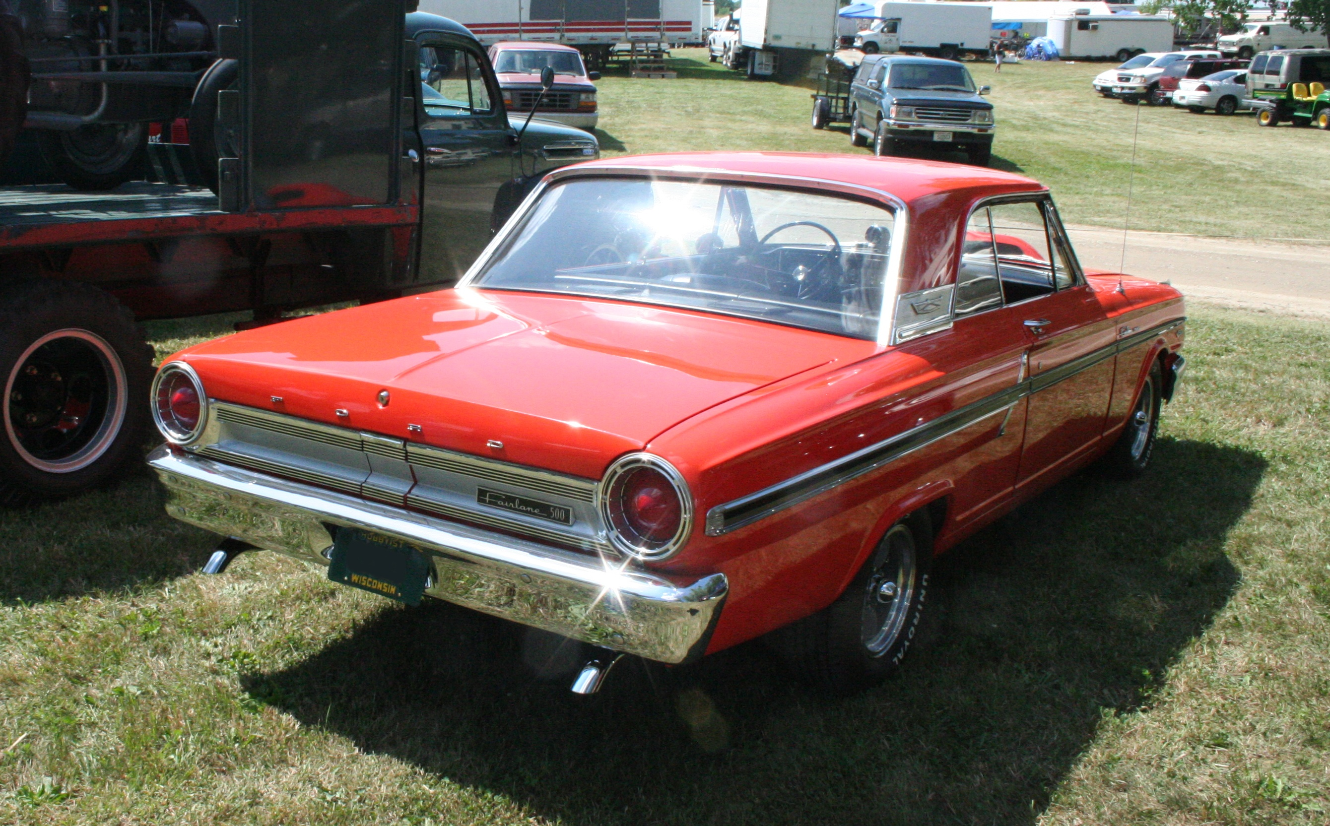 Ford Fairlane 500